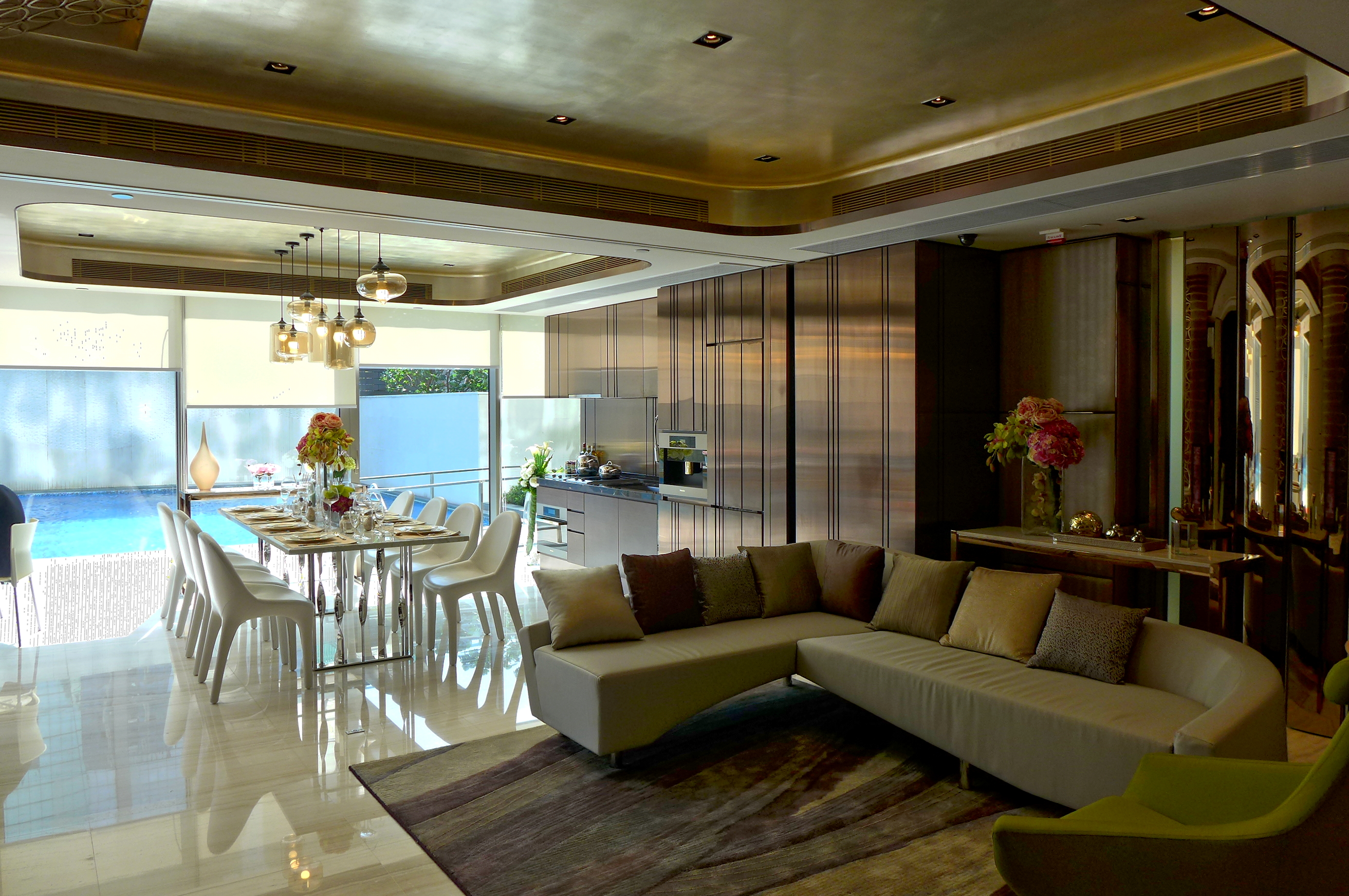 MacPherson Place Clubhouse